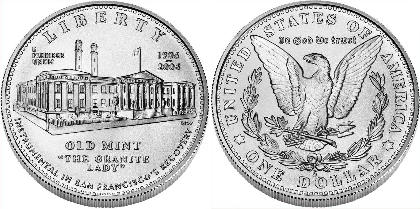 2006 San Francisco Old Mint Centennial commemorative dollar (uncirculated): the obverse face (left) is "a rendition of the Old Mint originally prepared for the San Francisco Mint Medal" and the reverse (right) "a replica of the 1904 Morgan Silver Dollar eagle reverse." (see source)